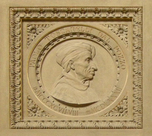 Paolo dal Pozzo Toscanelli. Detail taken from the 19th century honorary monument to Columbus, Vespucci and Toscanelli dal Pozzo in the Basilica di Santa Croce in Florence (Italy).